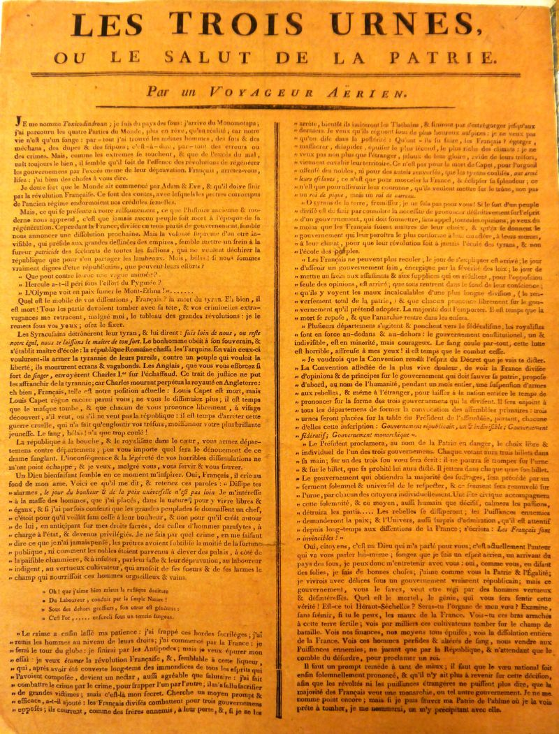 Olympe de Gouges. Les trois urnes, ou le salut de la Patrie, par un voyageur aérien ("The Three Urns, or the Salvation of the Fatherland, By An Aerial Traveller"). Paris, 1793. British Library 443.a.3(7)